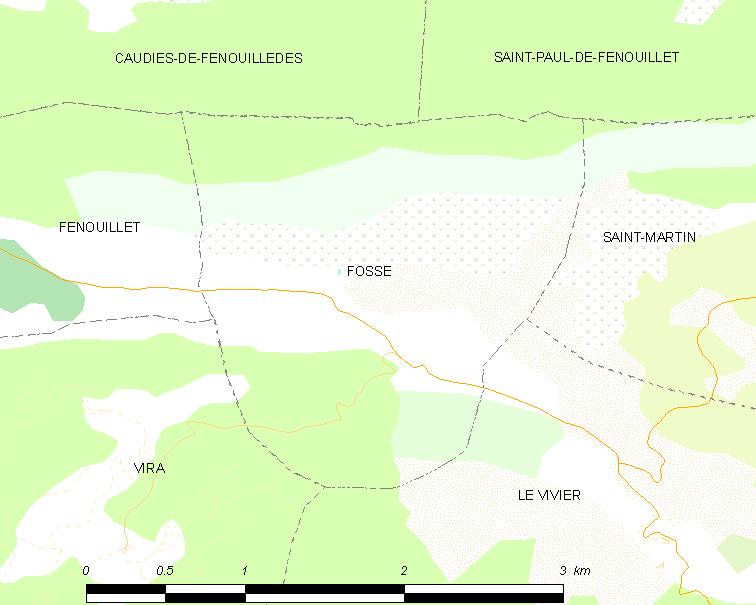 Map of French municipality